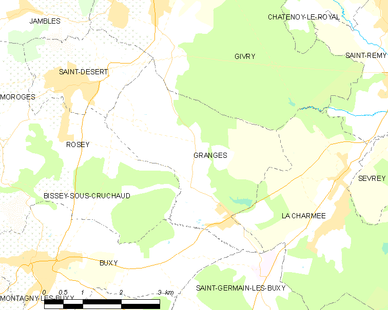 Map of French municipality